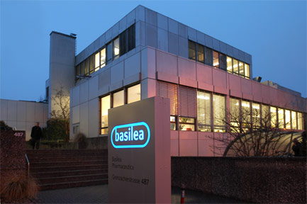 Basilea_Photo